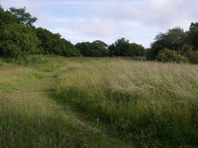 Coney's Castle The level area at the heart of the hillfort, which occupies a ridge.